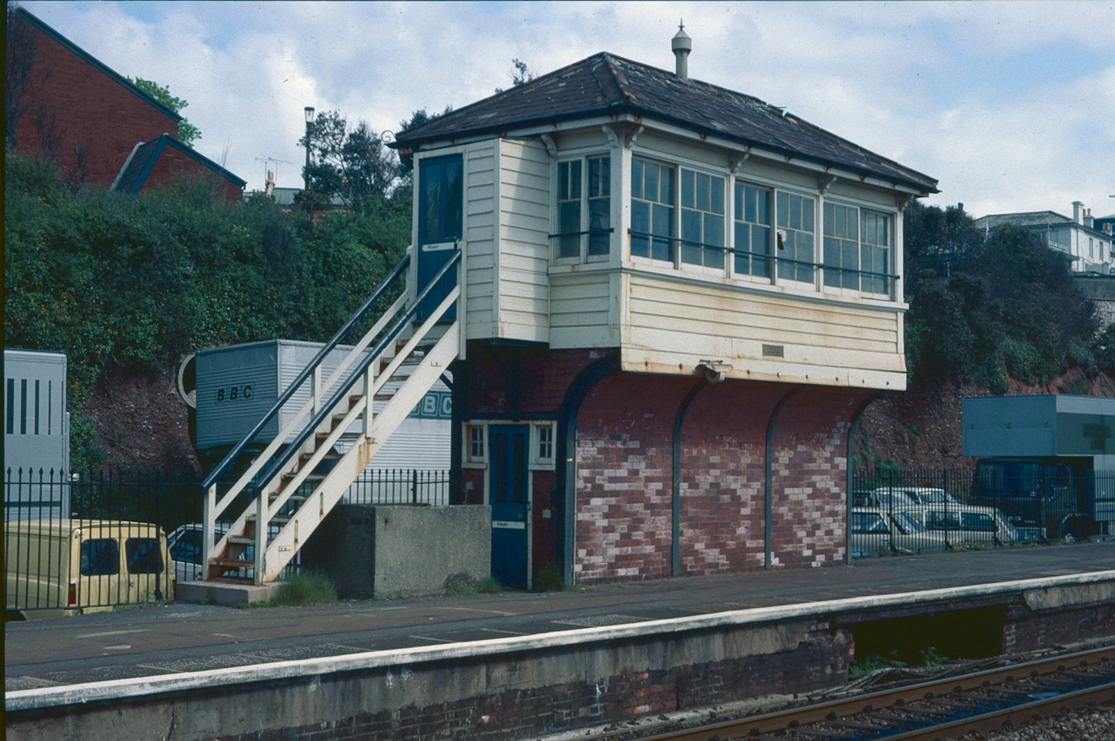 Dawlish Signal Box (Disused), 13/5/87.